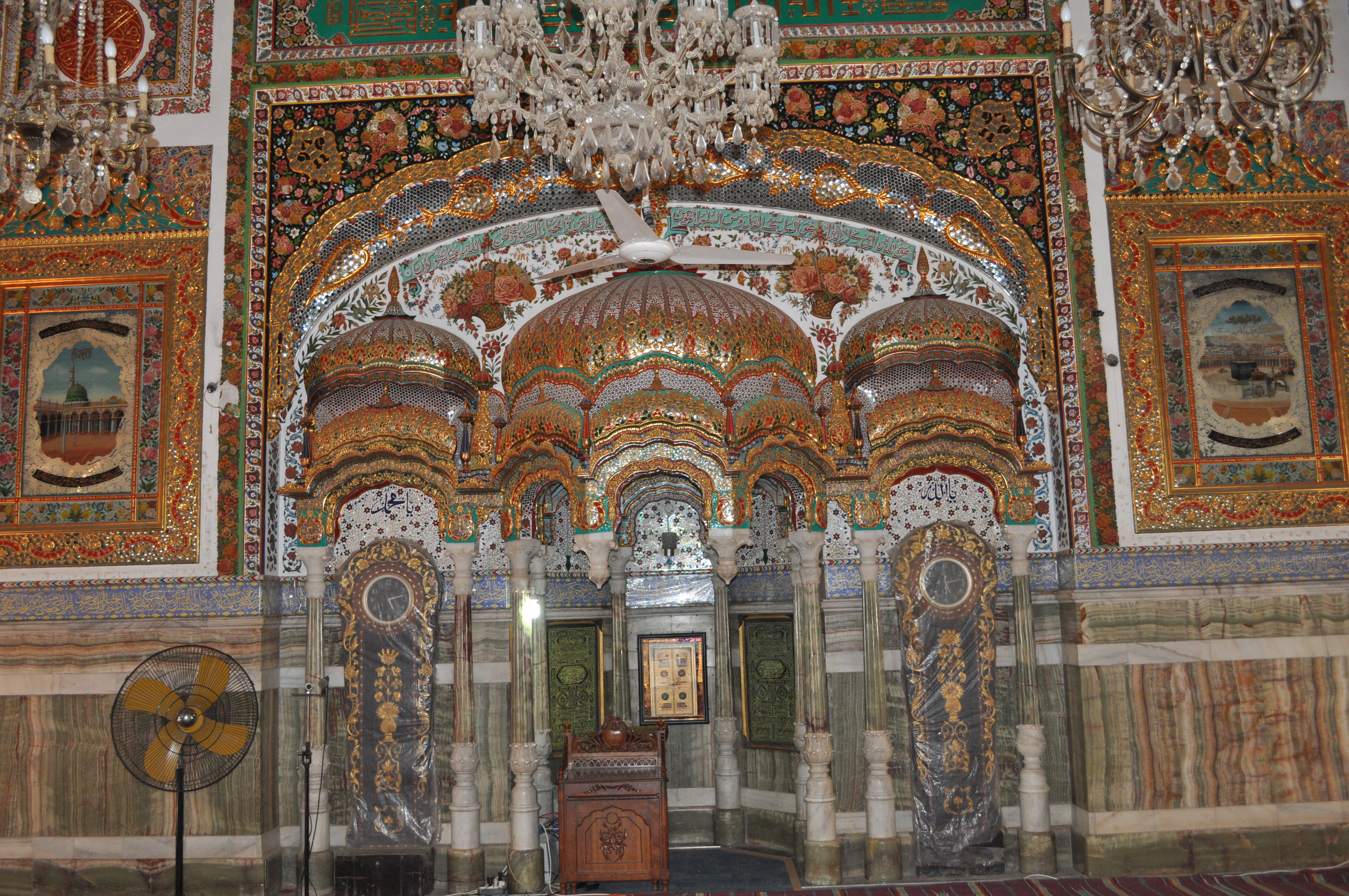 Bhong Mosque This is a photo of a monument in Pakistan identified as the PB-P-194